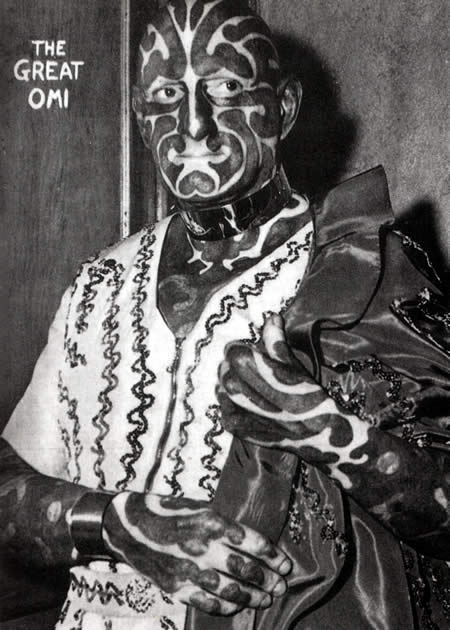 Horace Ridler aka The Zebraman